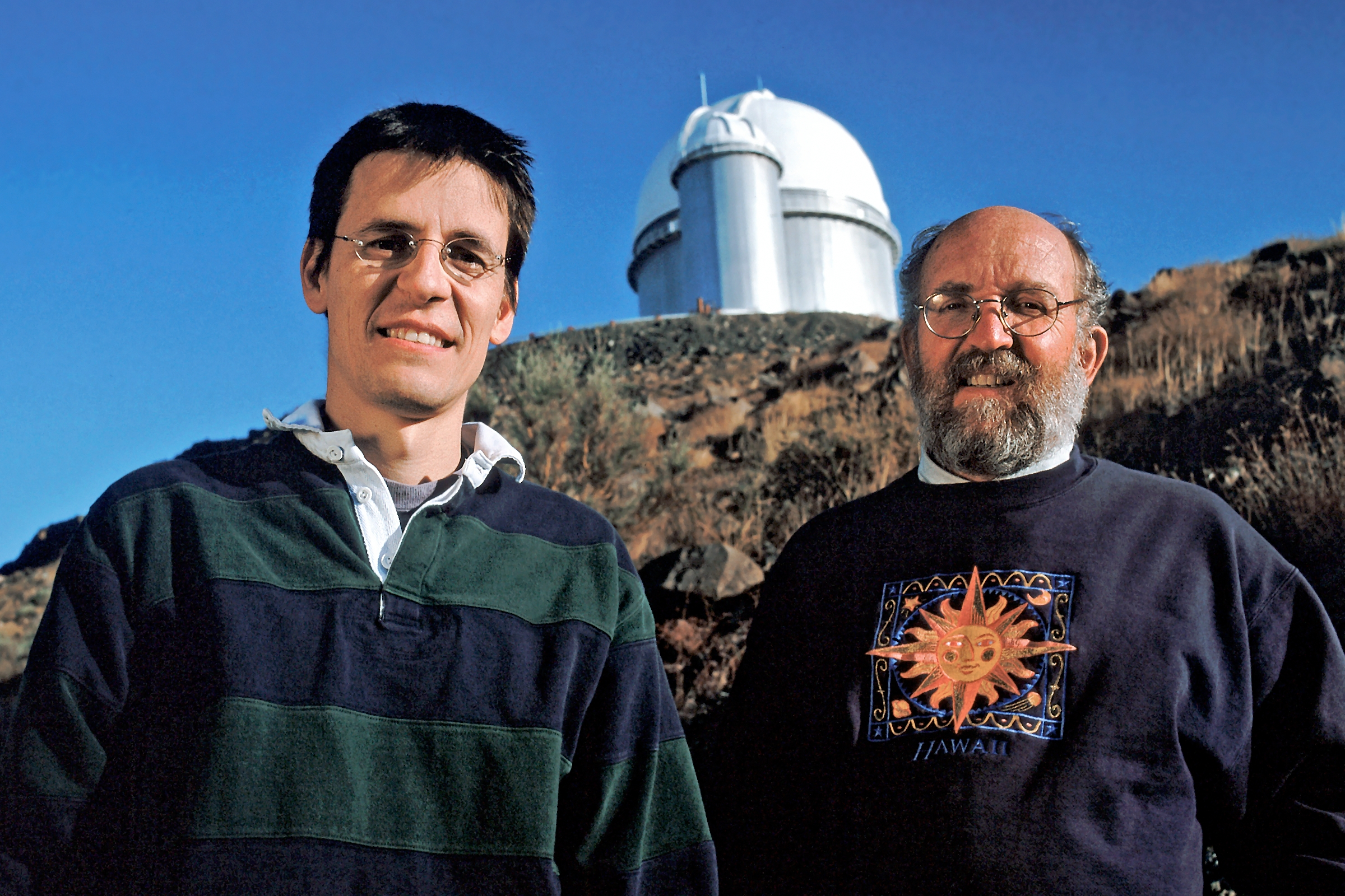 World-renowned Swiss astronomers Didier Queloz and Michel Mayor of the Geneva Observatory are seen here in front of ESO’s 3.6-metre telescope at La Silla Observatory in Chile. The telescope hosts HARPS, the world’s leading exoplanet hunter. They were awarded the 2011 BBVA Foundation Frontiers of Knowledge Award in Basic Sciences for their ground-breaking work on exoplanets.